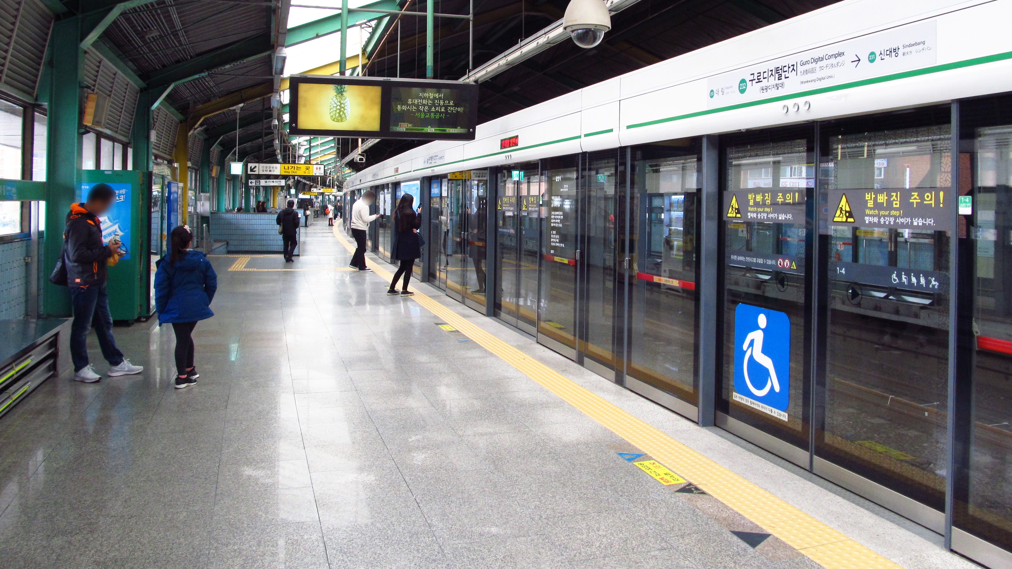 The platform at Guro Digital Complex Station on Seoul Subway Line 2 in Guro-gu, Seoul, Republic of Korea(South Korea)